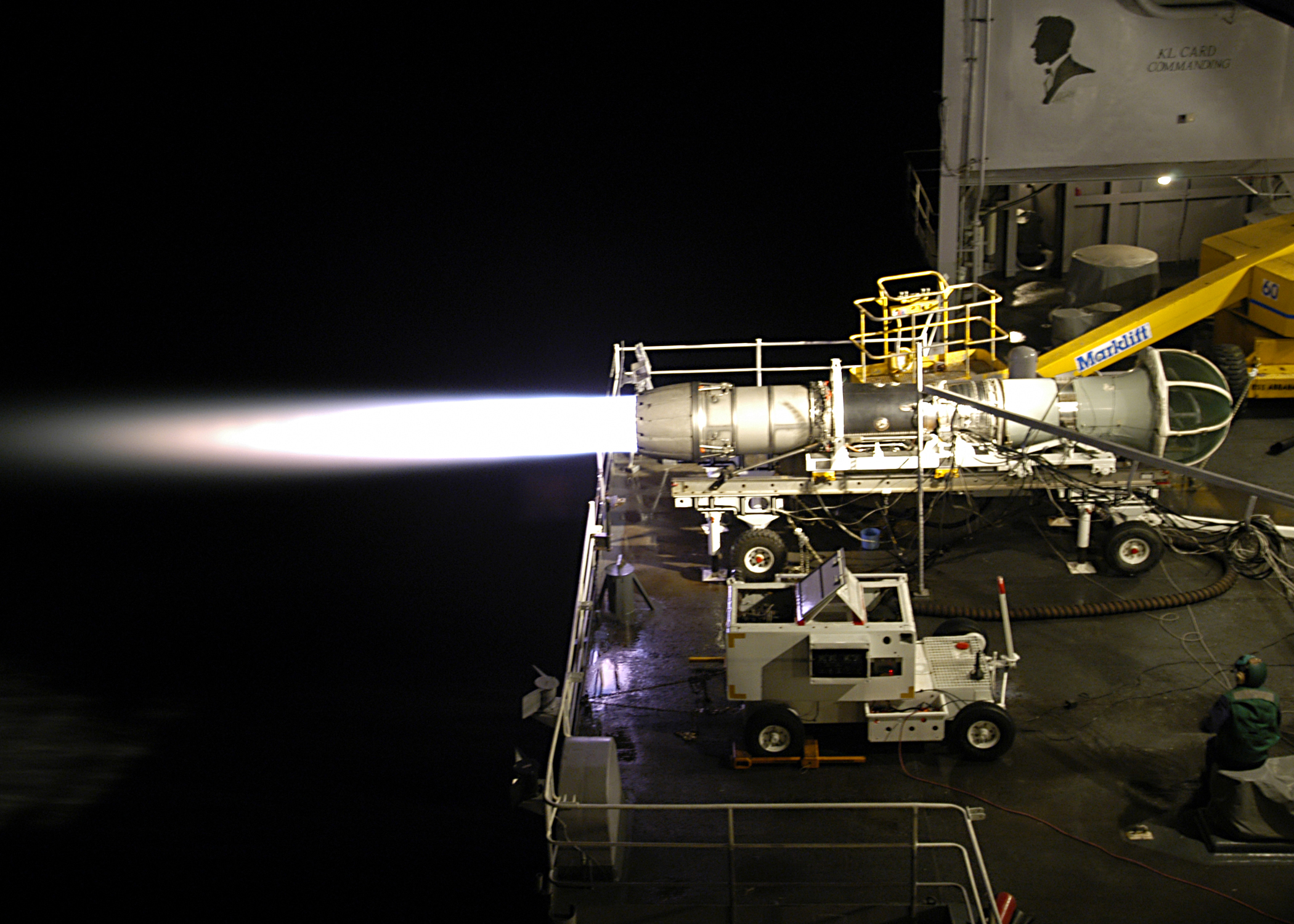 General Electric F404 engine being tested on the fantail aboard Nimitz-class aircraft carrier USS Abraham Lincoln (CVN-72)